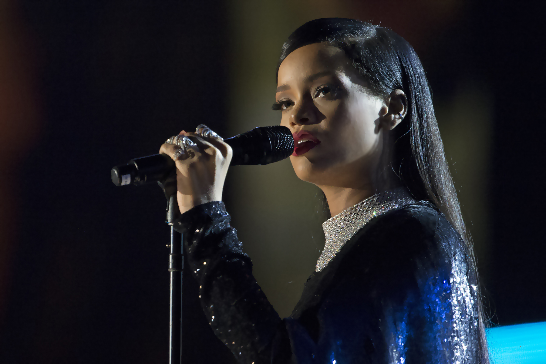 Rihanna sings during The Concert for Valor in Washington, D.C. Nov. 11, 2014. DoD News photo by EJ Hersom